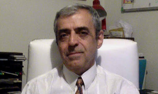 Photo of Koroush Zaim (of Iran's National Front/Jebhe Melli) from a Skype conversation, from my computer, between him, in Iran, and his two sons in the USA. Photo has already been widely shared in Iran, such as with Jebhe Melli (and other groups) to draw attention to his repeated incarceration as a political prisoner. At the time, Koroush was speaking from his office near Tehran, Iran. I asked him to pose for a moment and the shot was taken.